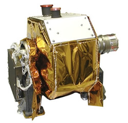 "The multi-spectral MDIS has wide- and narrow-angle cameras (the “WAC” and “NAC,” respectively) – both based on charge-coupled devices (CCDs), similar to those found in digital cameras – to map the rugged landforms and spectral variations on Mercury’s surface in monochrome, color, and stereo. The imager pivots, giving it the ability to capture images from a wide area without having to re-point the spacecraft and allowing it to follow the stars and other optical navigation guides. The wide-angle camera has a 10.5° by 10.5° field of view and can observe Mercury through 11 different filters and monochrome across the wavelength range 395 to 1,040 nanometers (visible through near-infrared light). Multi-spectral imaging will help scientists investigate the diversity of rock types that form Mercury’s surface. The narrow-angle camera can take black-and-white images at high resolution through its 1.5° by 1.5° field of view, allowing extremely detailed analysis of features as small as 18 meters (about 60 feet) across. "